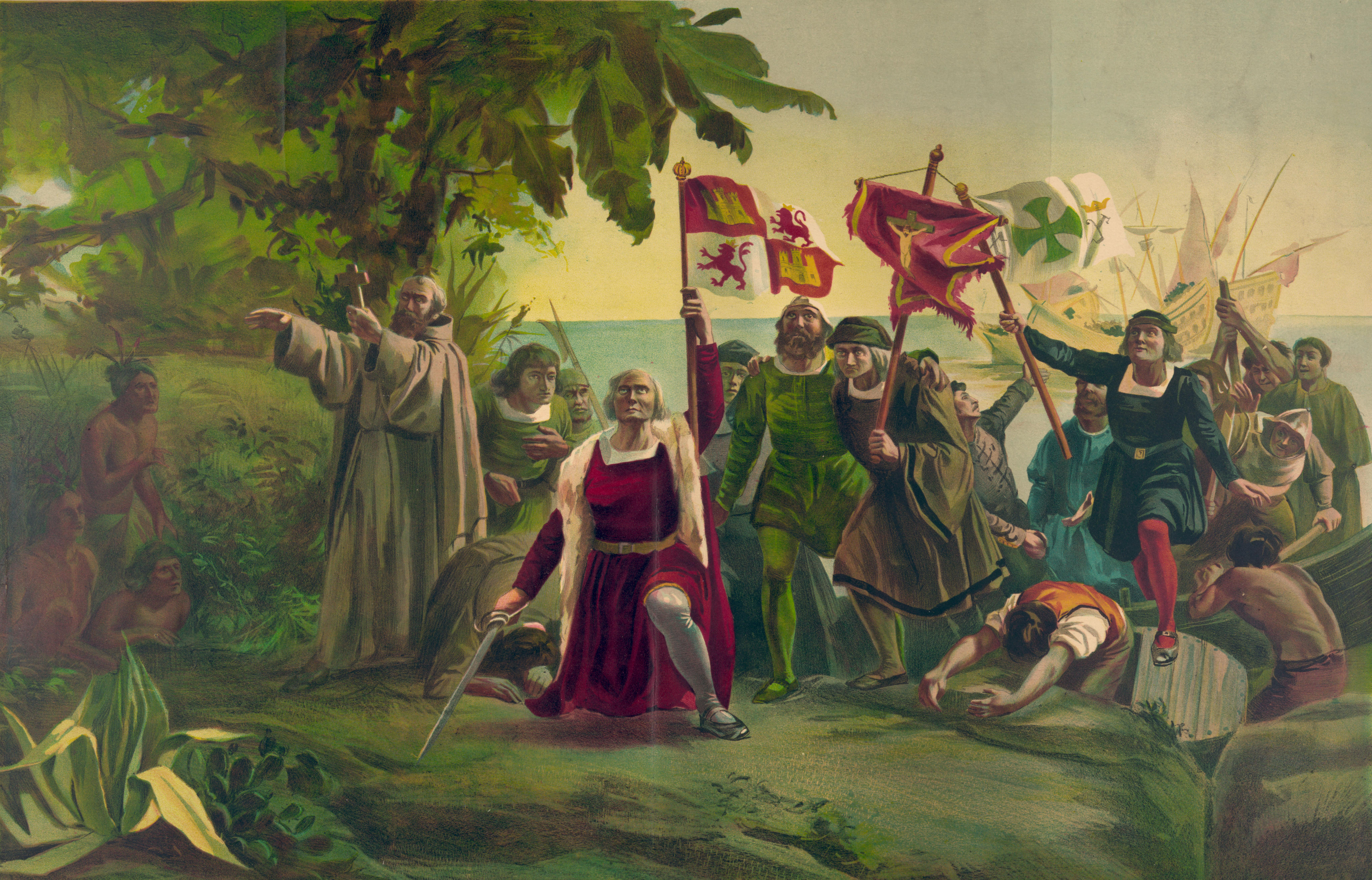 'This copy is not correct. It is different from the original'. First landing of Columbus on the shores of the New World, at San Salvador, W.I., Oct. 12th 1492.